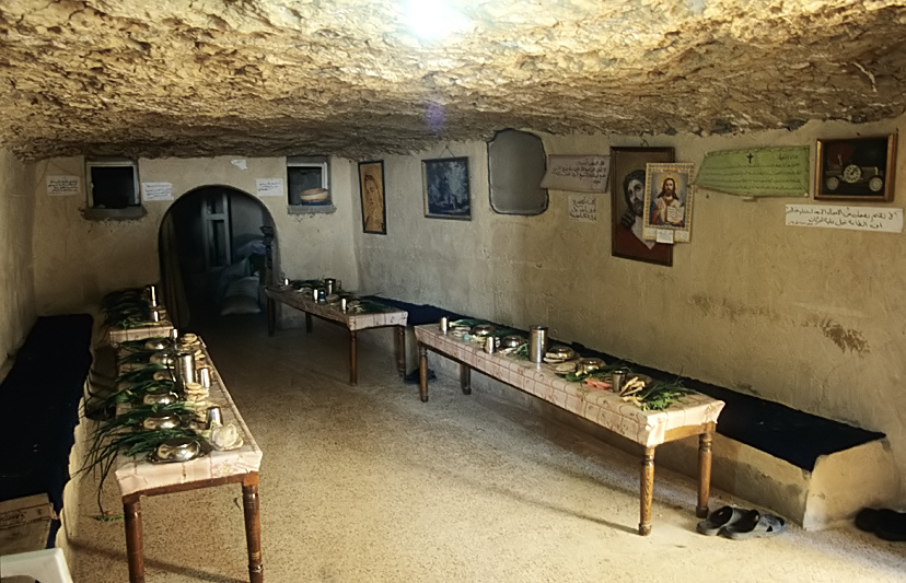 Refectory in the Wadi el-Rayyan monastery, Libyan desert, Egypt